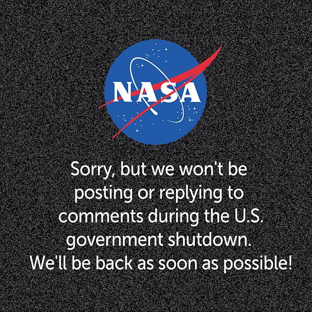 Imagen posted on NASA Goddard Space Flight Center Flickr with the description: We're sorry, but we will not be posting to Flickr during the U.S. government shutdown. Also, all public NASA activities and events are cancelled or postponed until further notice. We'll be back as soon as possible! Sorry for the inconvenience.